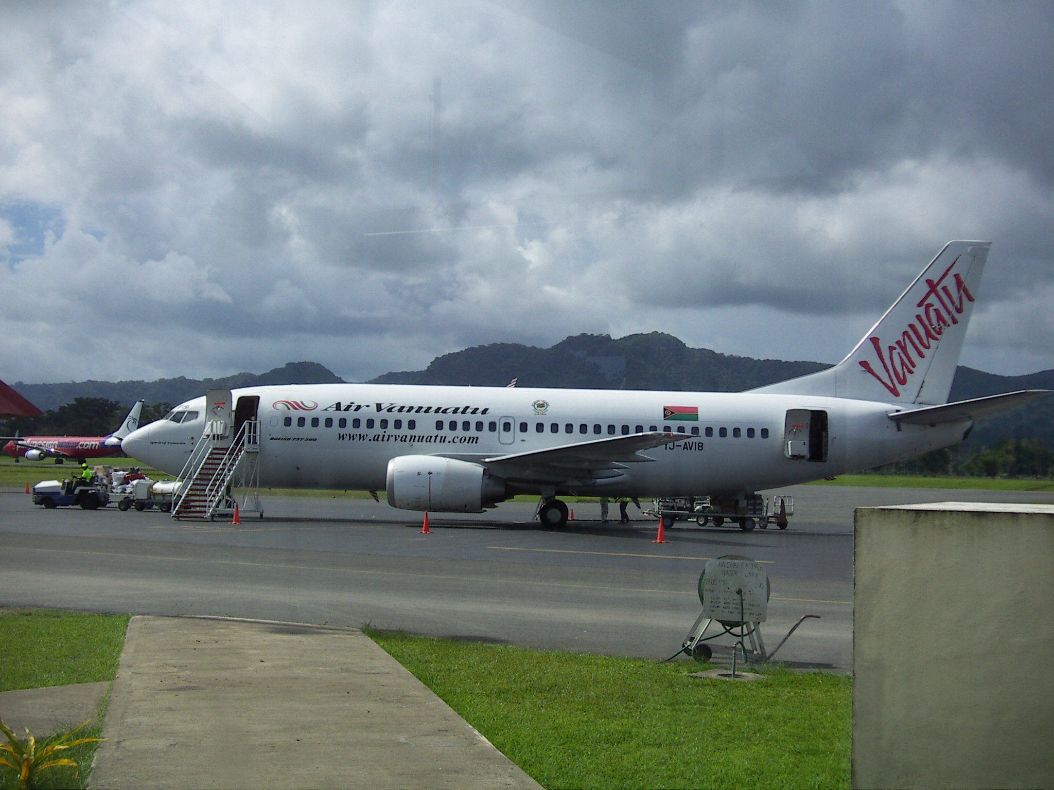 Boeing 737-300 plane waits at Bauerfeild